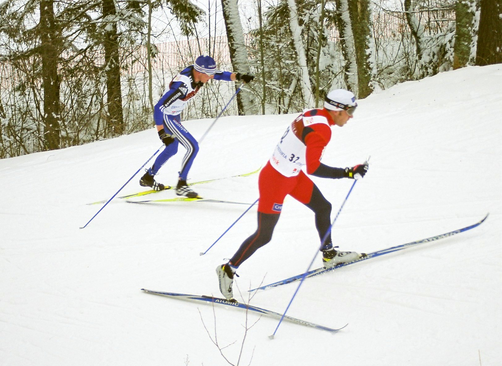 FIS World Cup Cross Country - January 7-8 2006 in Otepää, Estonia Men's 15k Classic XC Anders Aukland in front, a swiss Cross country skier in the back (probably Reto Burgermeister)